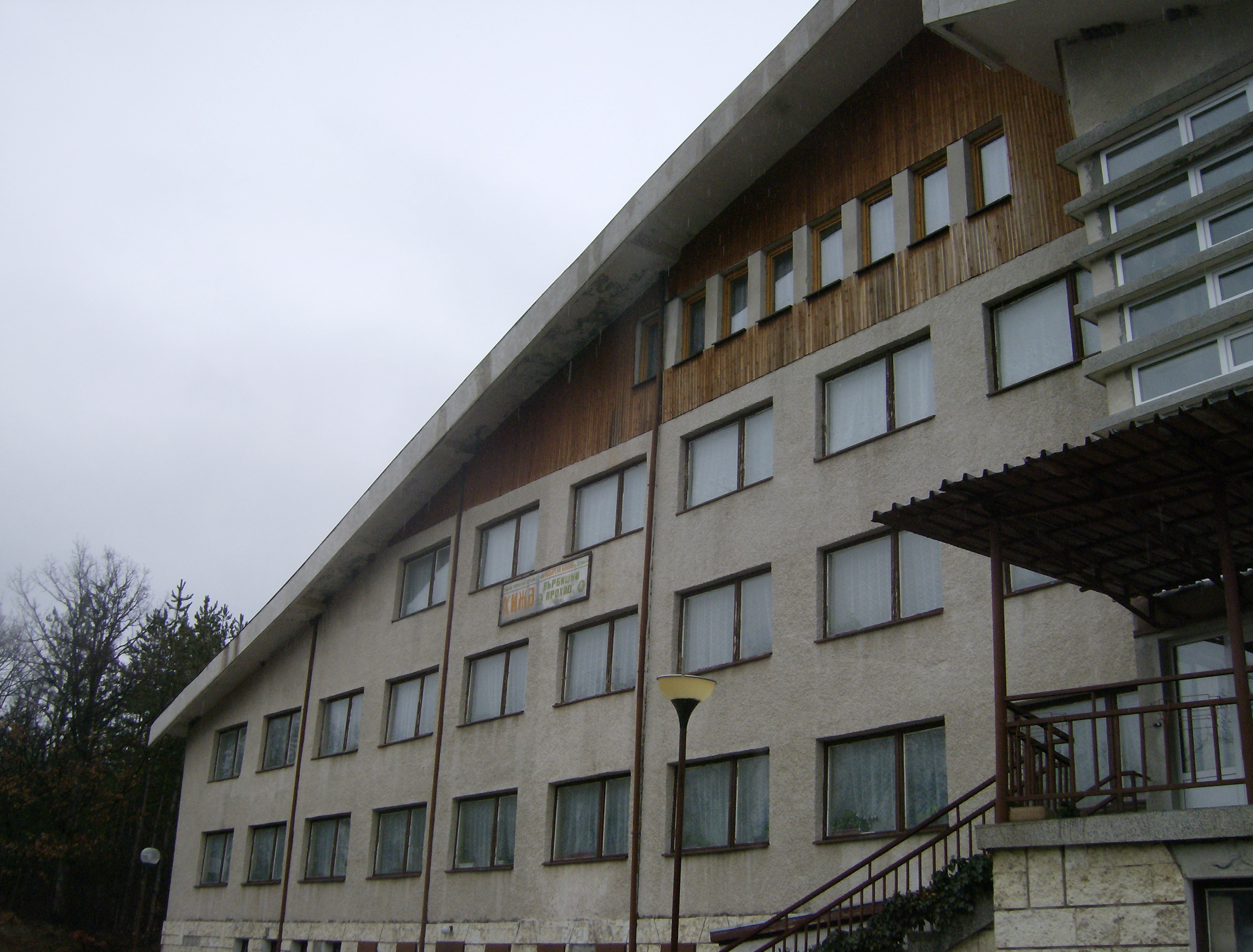 Varbishki prohod